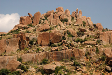 Rock formations at Adoni Hills, Kurnool district